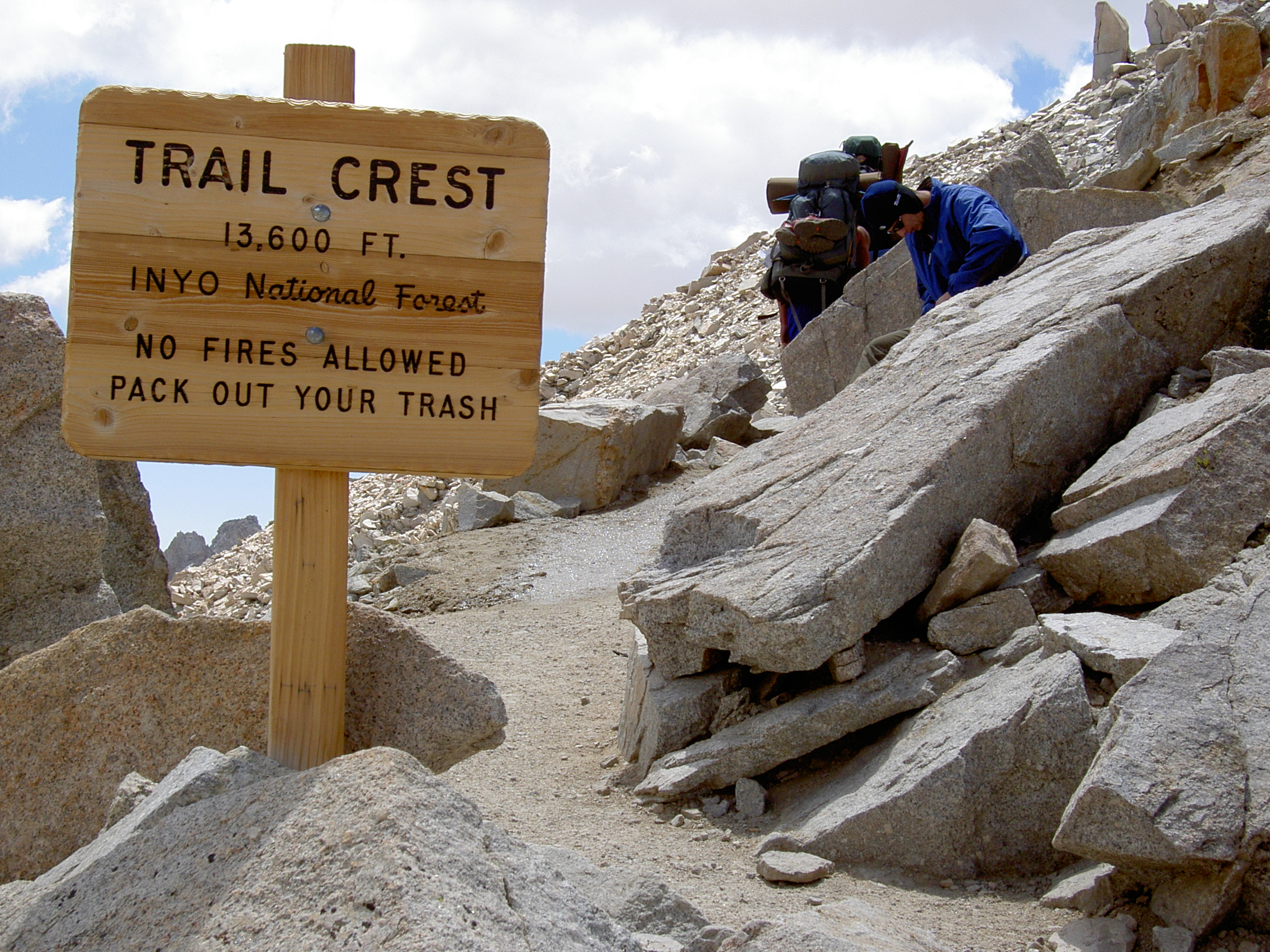 Trail Crest, on the trail to Mount Whitney in the Eastern Sierra Nevada, California.